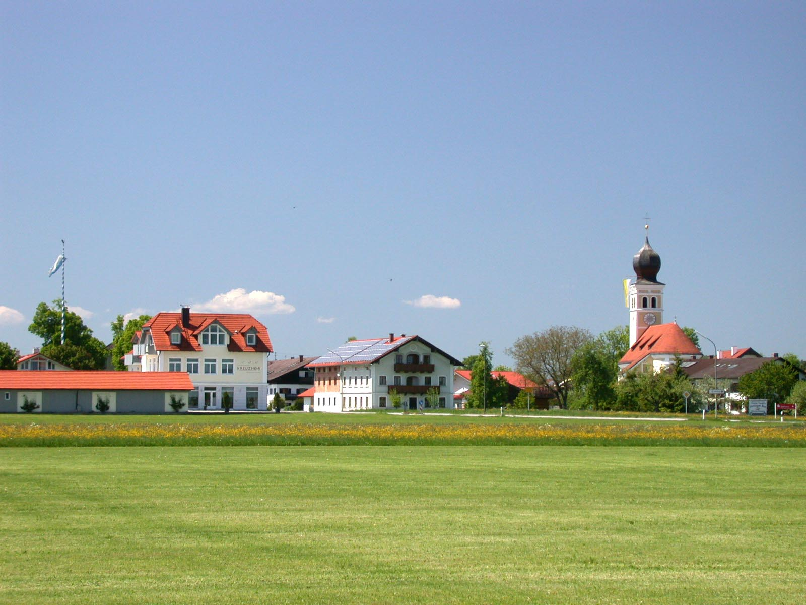 Goetting/Bruckmuehl in Germany. View from south east.